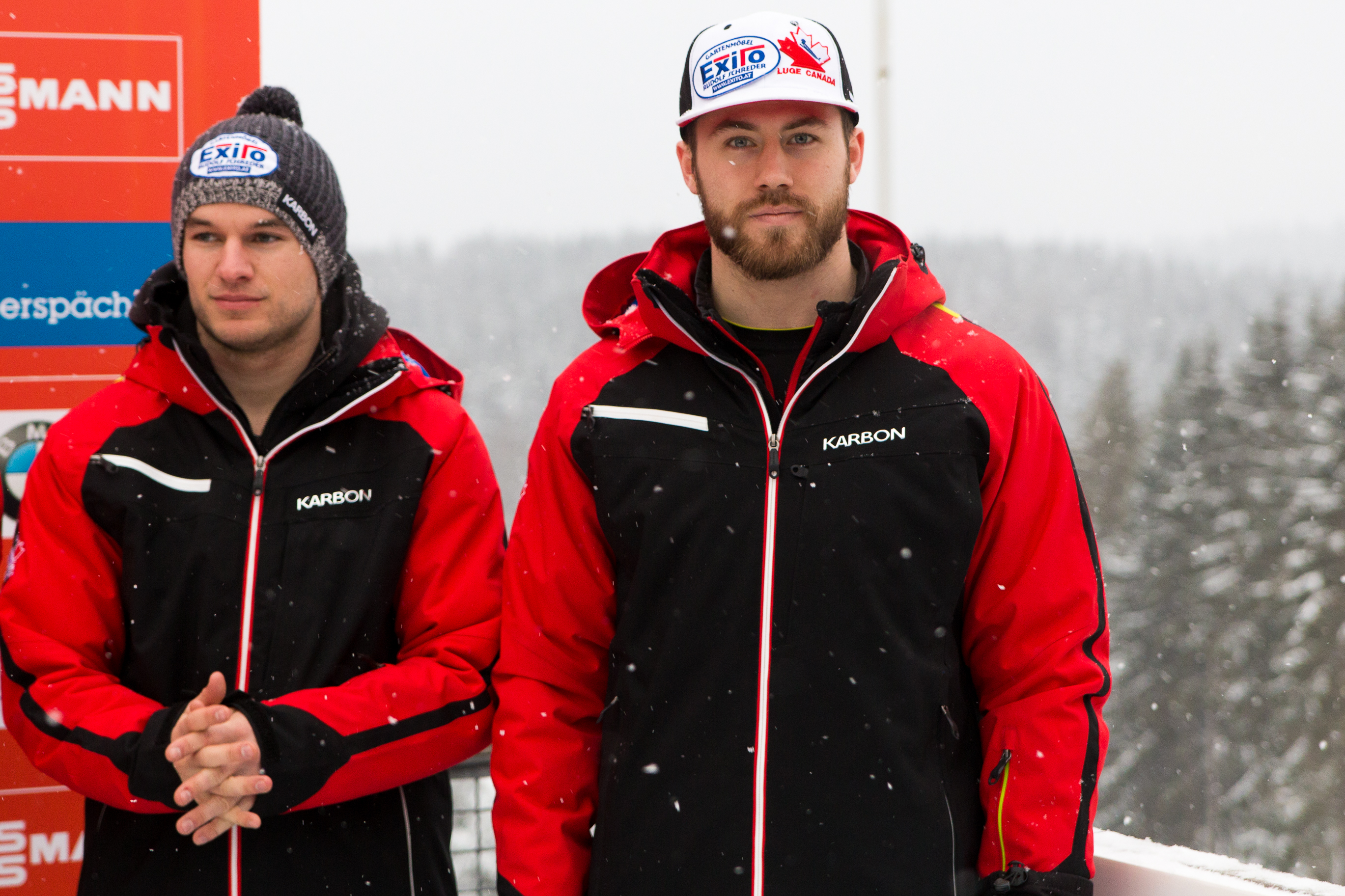 Luge world cup Oberhof 2016-01-17